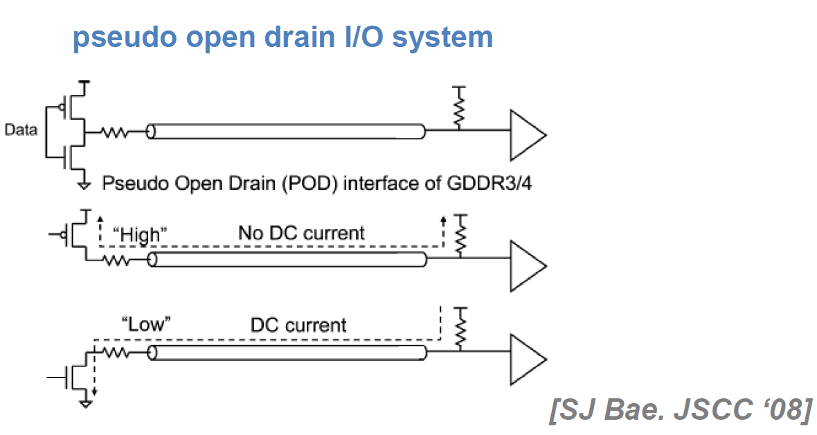 Short electronics diagrams with structure, operation when driving high and operation when driving low